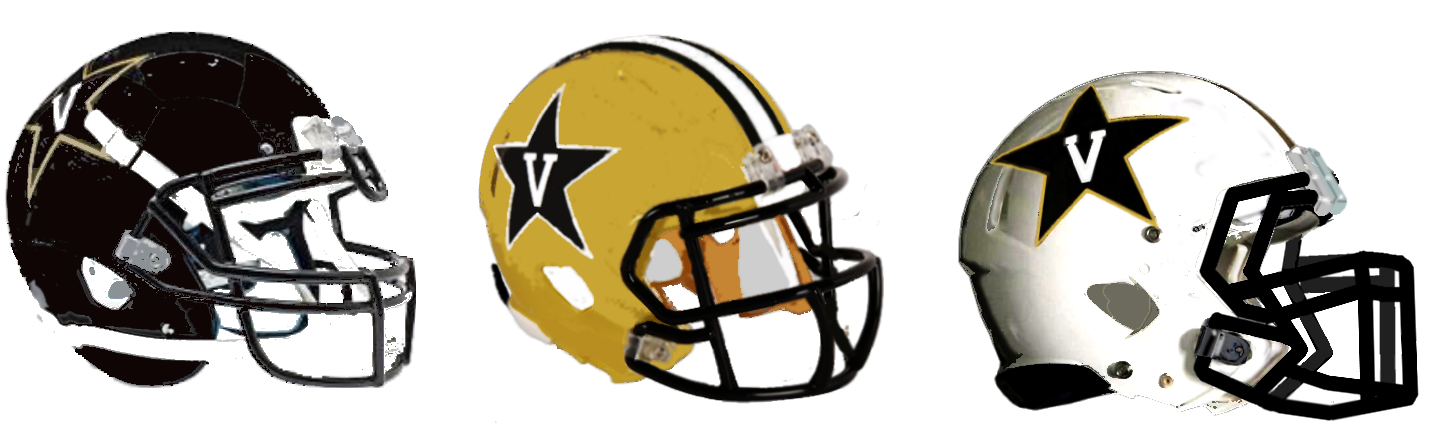 My Own Art Work useing PaintShop Pro X3